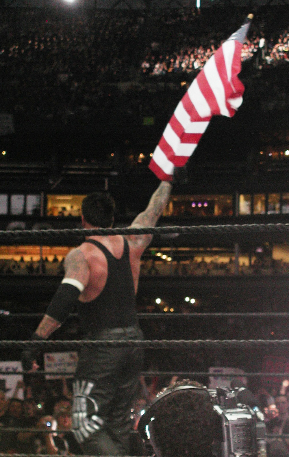 The Undertaker at WrestleMania XIX. Skydome, Seattle, WA, March 30en:2003.